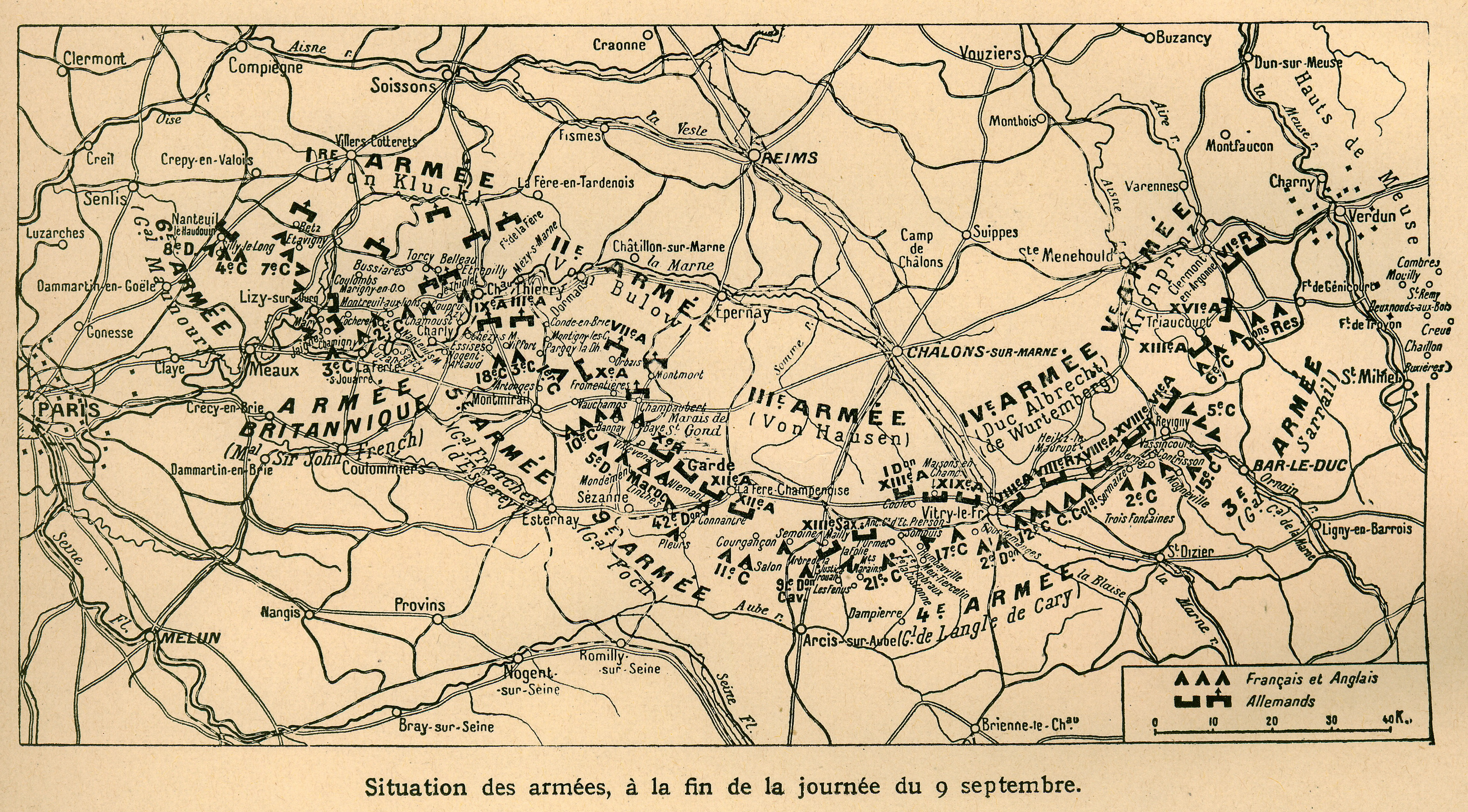 contemporary french map of the first battle of the Marne, day five, 9th september 1914